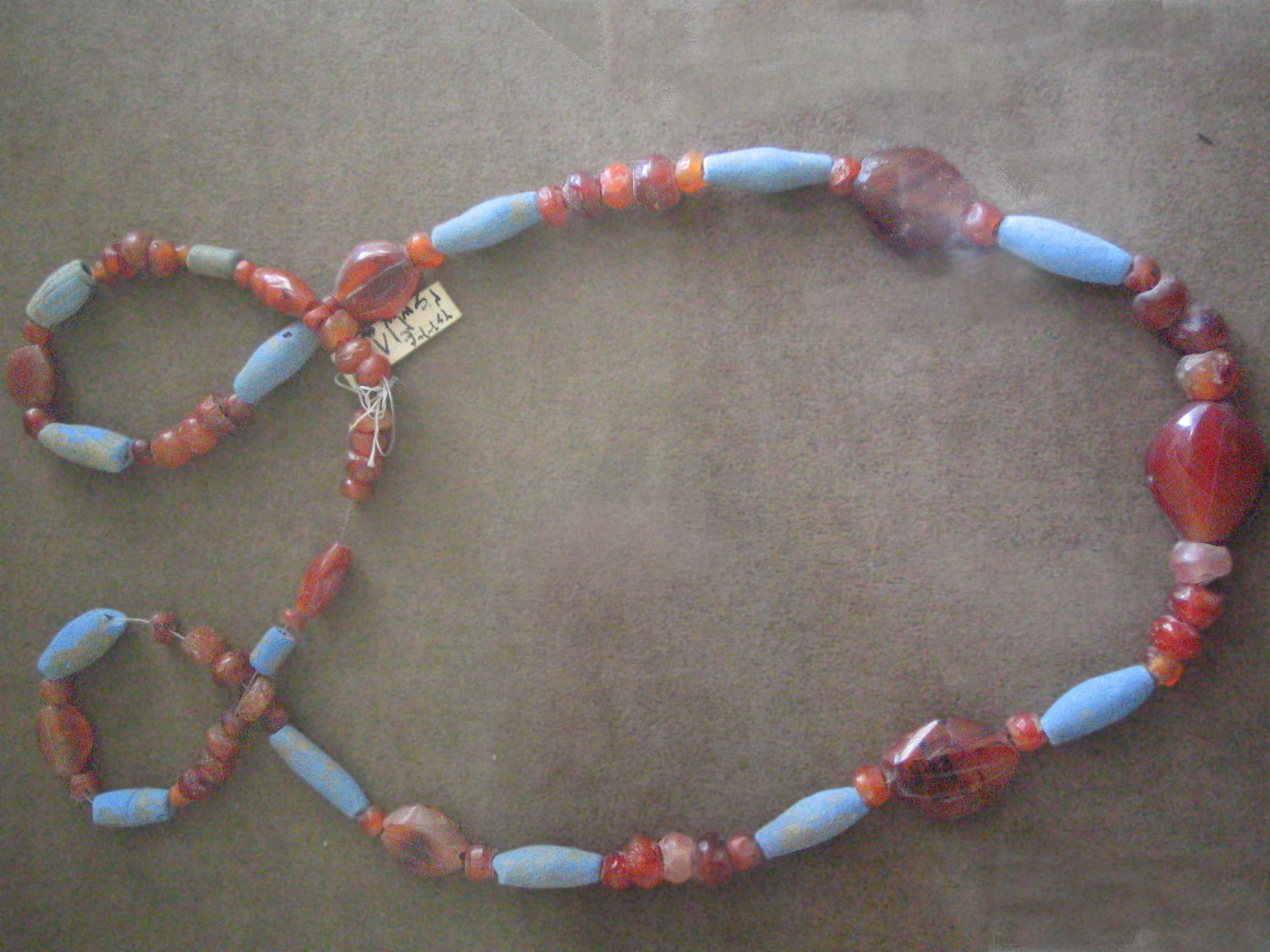 Colliers, Juban (Gilan) 1st mil BC. National Museum of Iran.